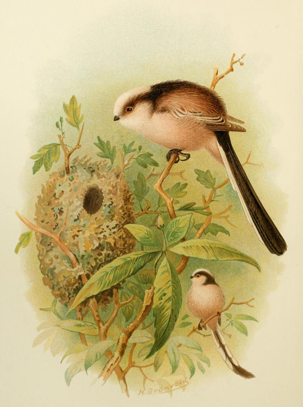 An illustration of Long-tailed Tits by Henrik Grönvold